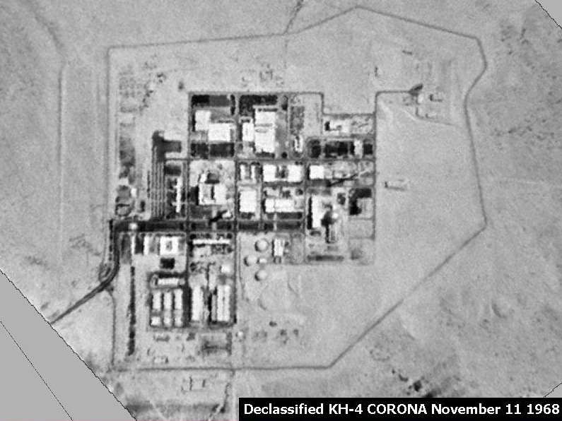 Negev Nuclear Research Center at Dimona, photographed by American reconnaissance satellite KH-4 CORONA, 1968-11-11. Uncropped version at .